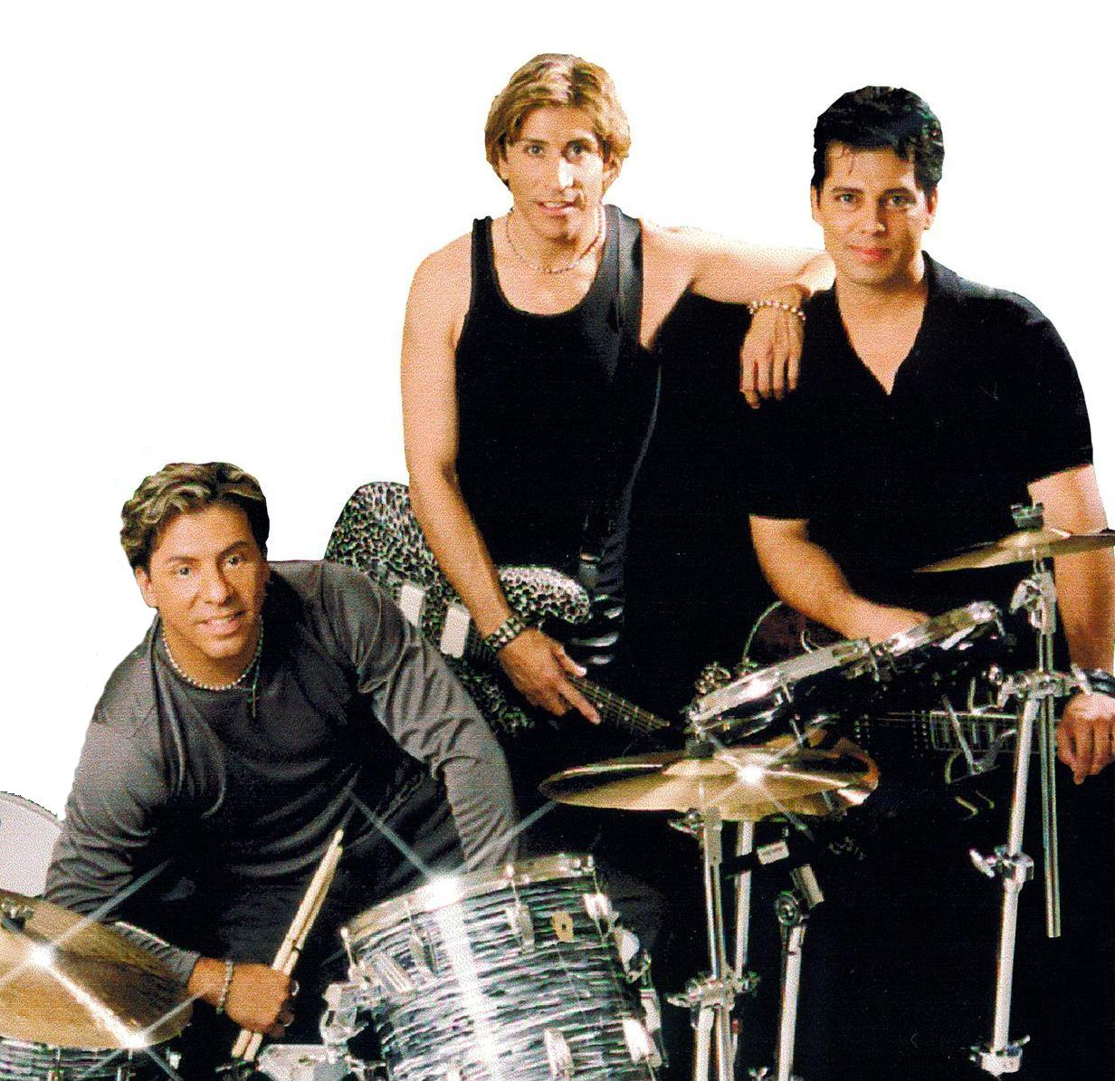 Public promotional photo opportunity